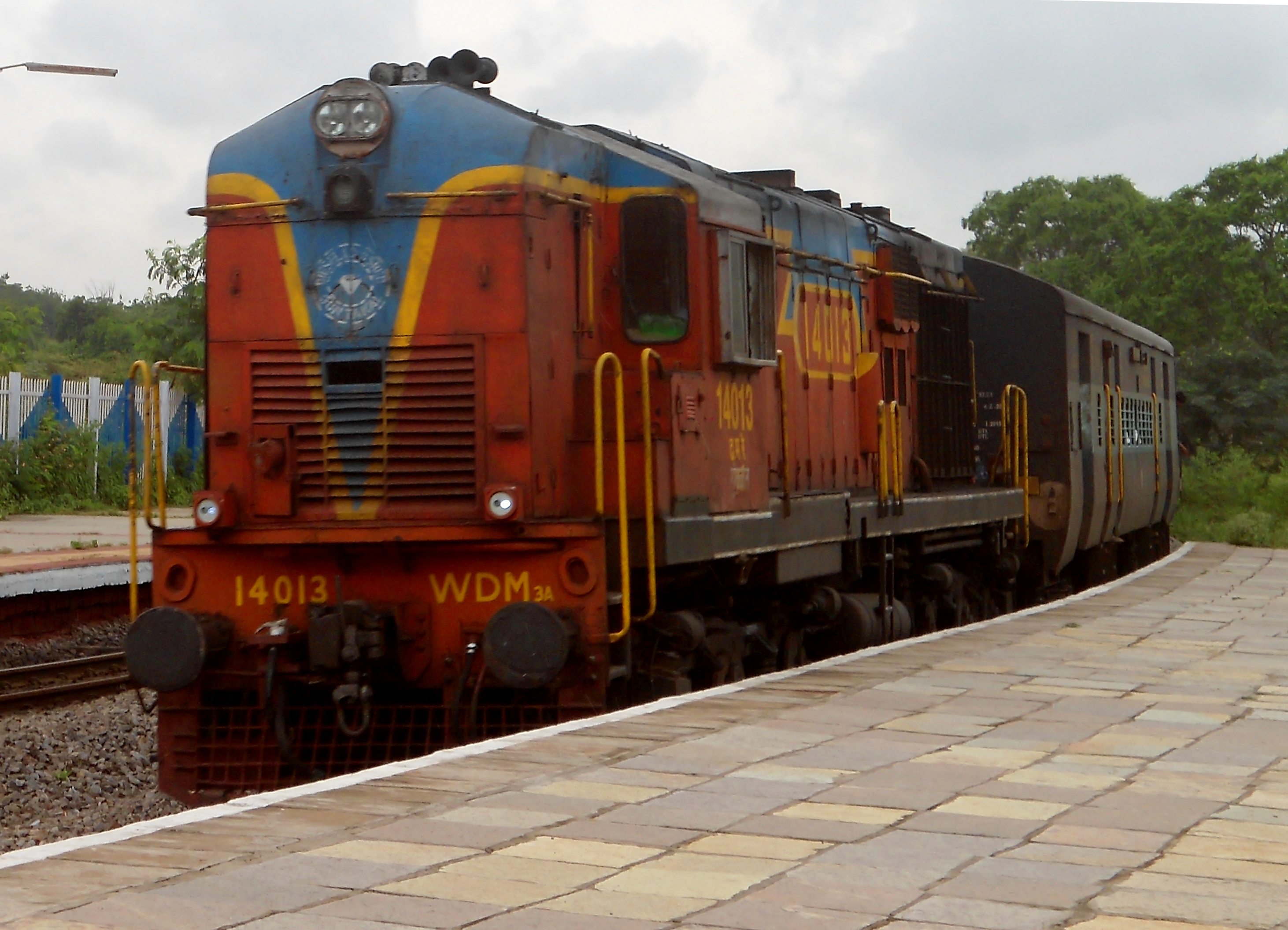 Bodhan-MBNR Passenger with Baldie WDM-3A loco at Ammuguda railway station, Hyderabad Loco road number: #14013 Loco class: WDM3A Specialised in: Passenger traffic Loco shed: Guntakal (GTL)